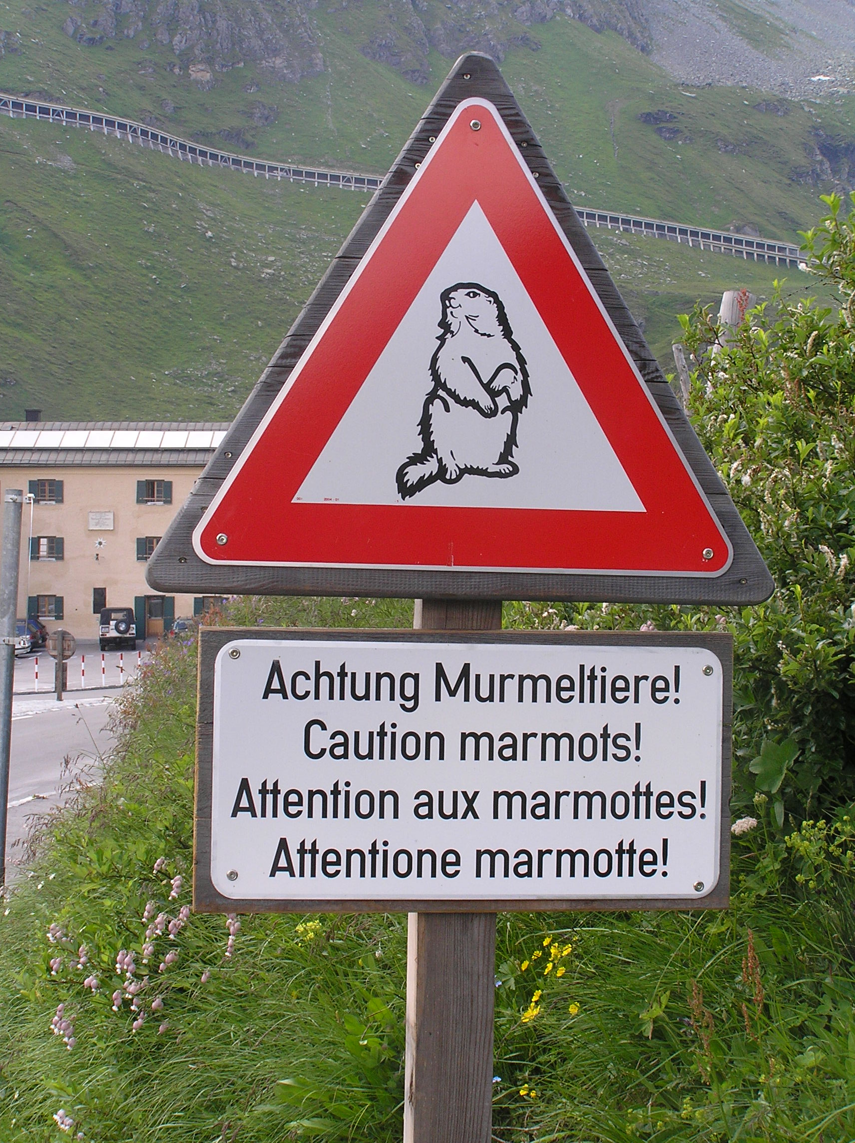 Warning sign near Grossglockner, Austria, 2005-07-17 Author: Arne Møller Jensen